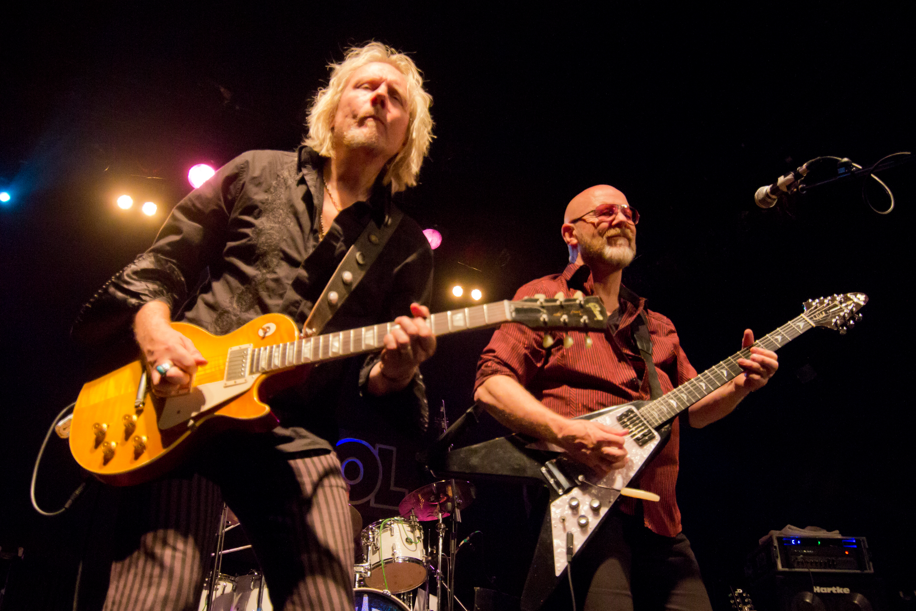 Rock band Wishbone Ash live in Madrid, Spain.